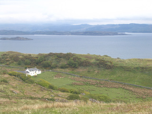 Barnhill (Cnoc an t-Sabhail), near to Kinuachdrachd, Argyll And Bute, Great Britain. Cnoc an t-Sabhail (